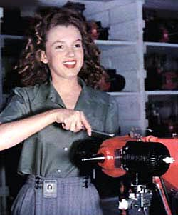 U.S. army - June 26, 1945 YANK magazine photo (colorized version) of Marilyn Monroe as Norma Jeane Dougherty